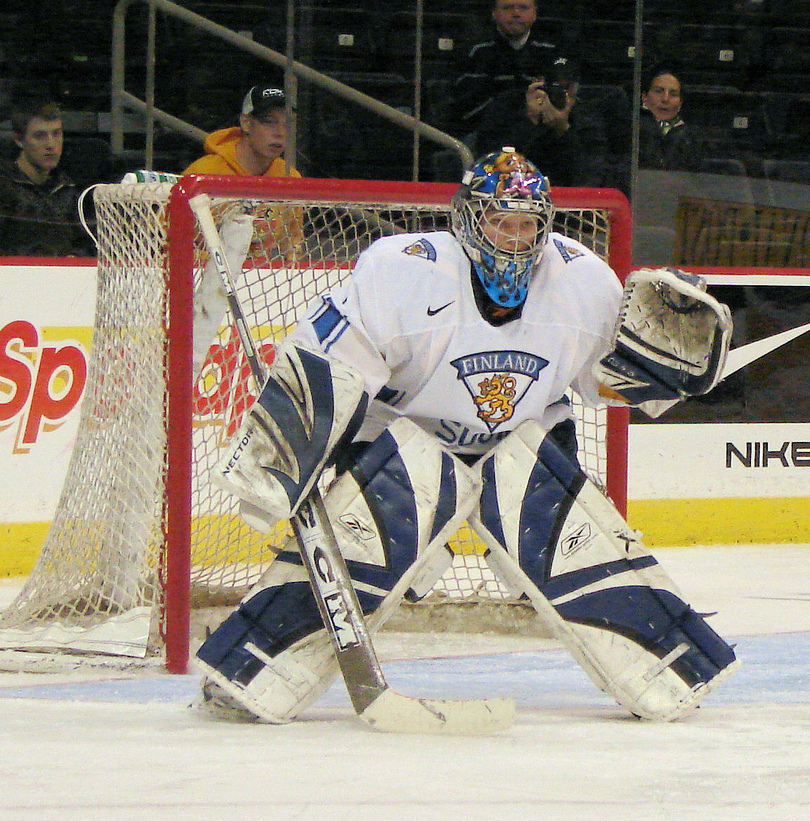 Finland goaltender Noora Räty at the 2007 IIHF Women's World Championships.